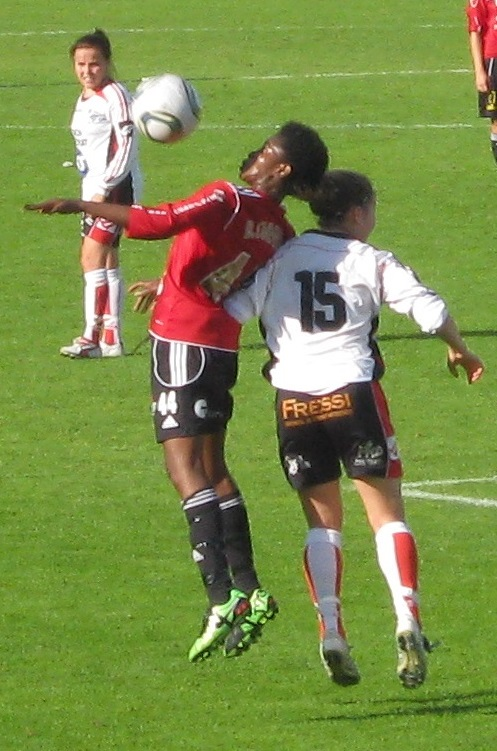 Finnish Women's League, NiceFutis vs. KMF. August 2011 at Porin Stadion, Pori, Finland. Biodun Obende of NiceFutis (left) and Eriikka Lyytinen of KMF.